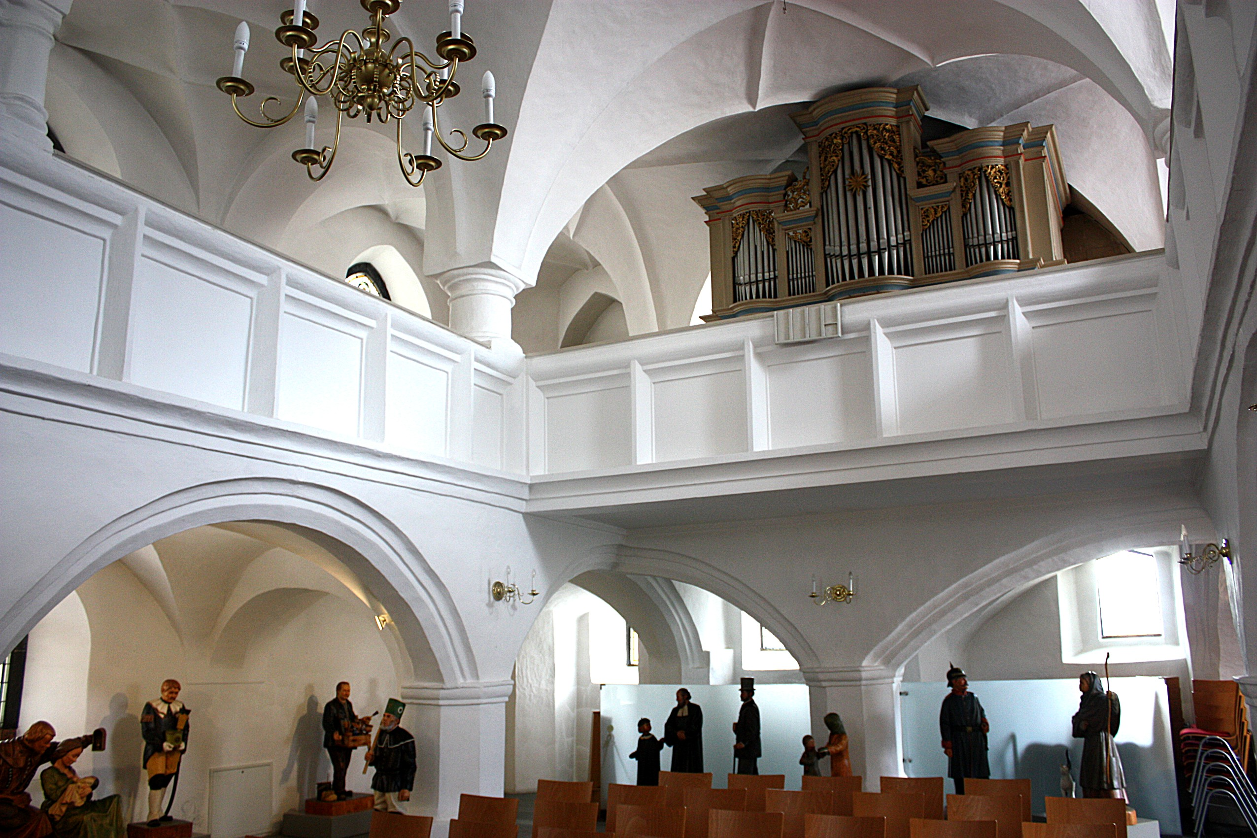 Annaberg-Buchholz, mountain church, inner view